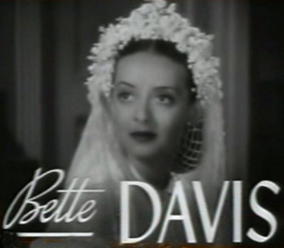 Cropped screenshot of Bette Davis from the trailer for the film The Old Maid.